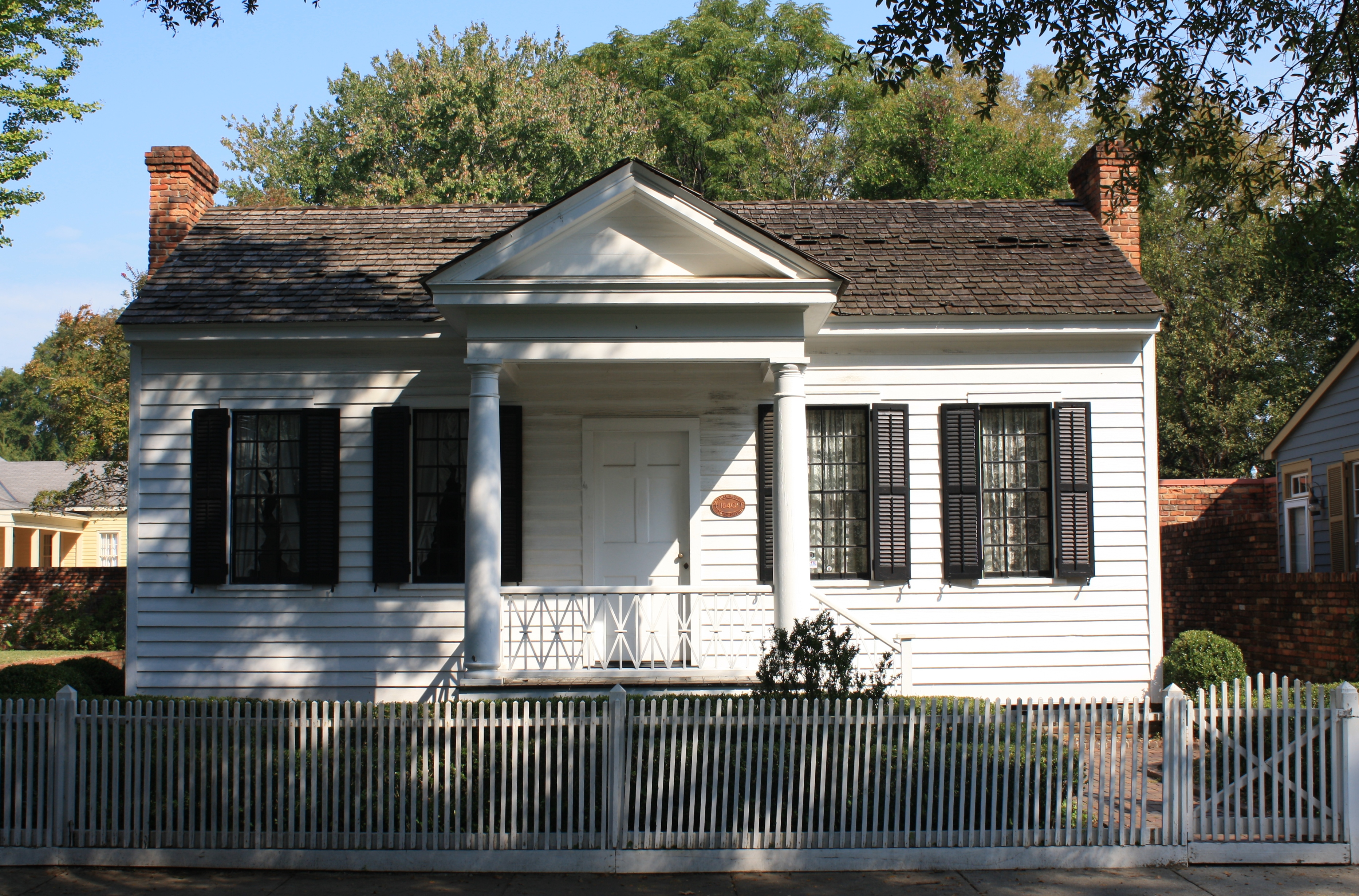 Columbus Historic District The Pemberton House